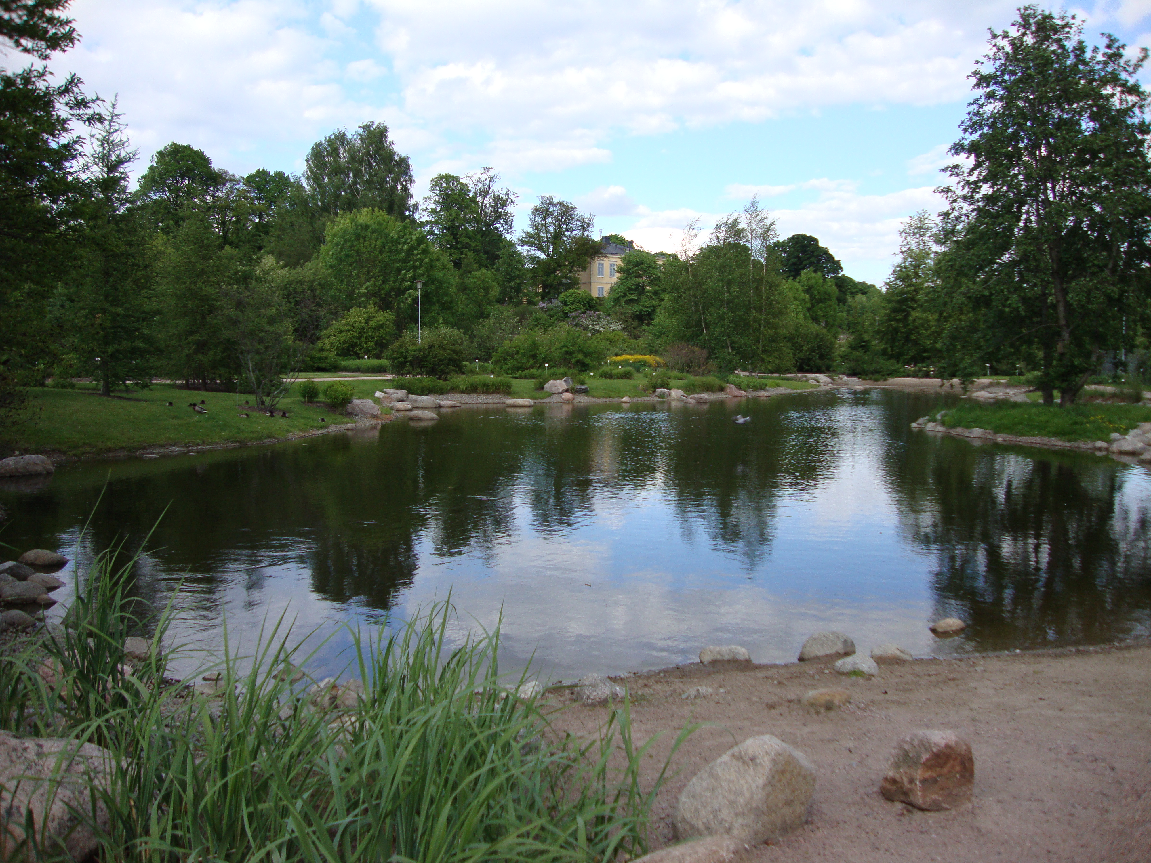 The ponds of The Helsinki University Botanical Garden in Kumpula